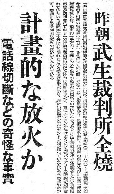 Fukui Shimbun newspaper clipping (21 September 1949 issue)